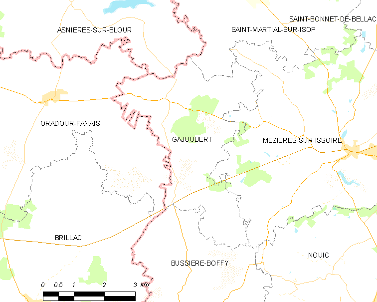 Map of French municipality Gajoubert